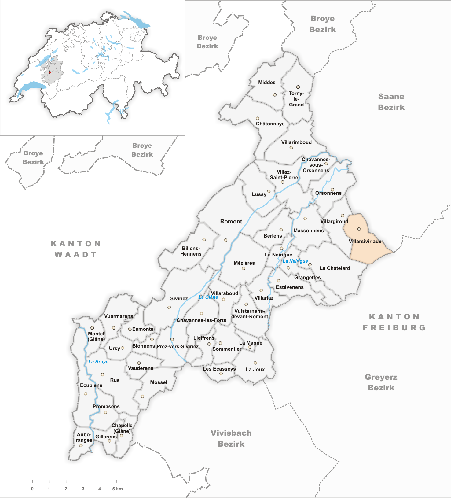 Municipality Villarsiviriaux Artist: Tschubby